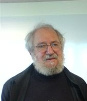 Seymour Papert, at the OLPC offices in Cambridge, Mass. in 2006. Crop of photo taken by ak_mardini; originally uploaded to Flickr under a cc-by-sa license.